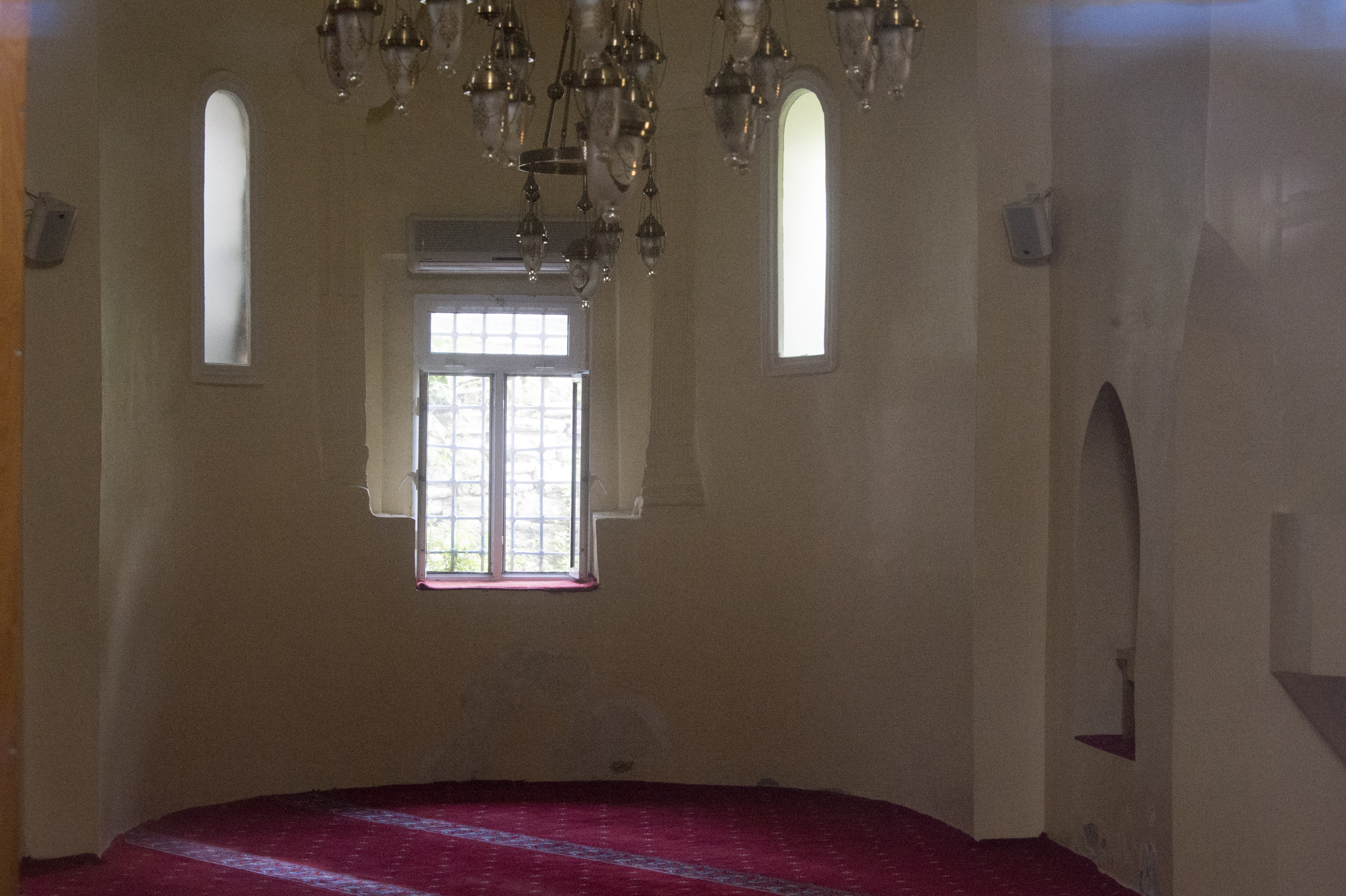 It dates probably to the end of the 14th century. Though Strolling through Istanbul refers to it as a (former) church, the Wikipedia claims that for its small size it probably was a martyrion or burial chapel. It is an irregular octagon with an apse oriented towards the east. The masonry uses alternate courses of brick and ashlar, giving to the exterior the polychromy typical of the Palaiologan period. Remnants of walls still present in the northwest and south sides before the restoration showed that the building was not isolated, but connected with other edifices. A minaret has also been added to the restored building. Restoration was necessary after the 1894 Istanbul earthquake, which had its epicentre under the Sea of Marmara, partially destroyed the mosque, which was restored only between 1973 and 1976.